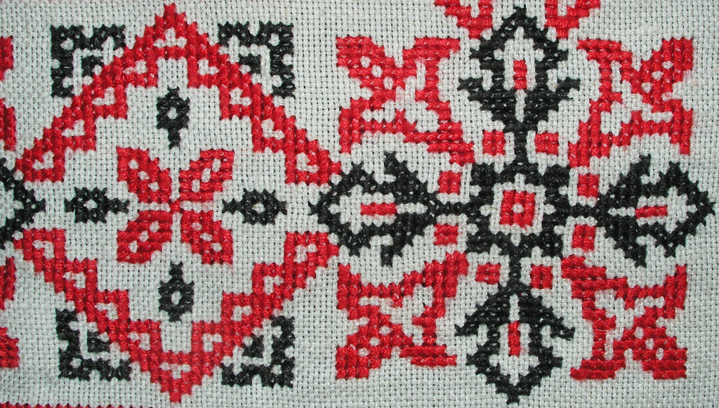 Detail of cross-stitch embroidery. Tea cloth border, black and red cotton floss, Hungarian, mid-twentieth century. Black and red cross-stitch patterns are characteristic of the folk embroidery of eastern and central Europe.